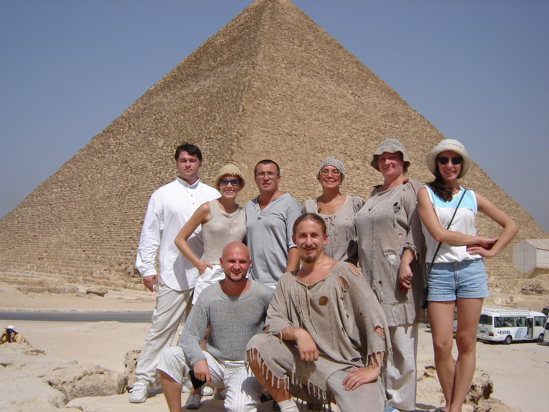 Камерный Драматический театр г. Вологда в Африке